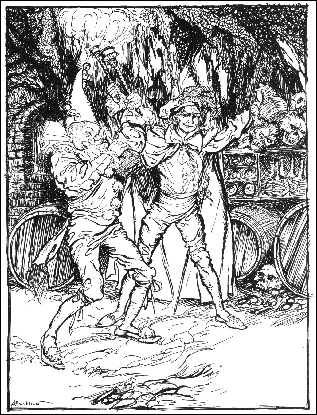 Arthur Rackham's illustration from Poe's "Tales of Mystery and Imagination" for Edgar Poe's story "The Cask of Amontillado".